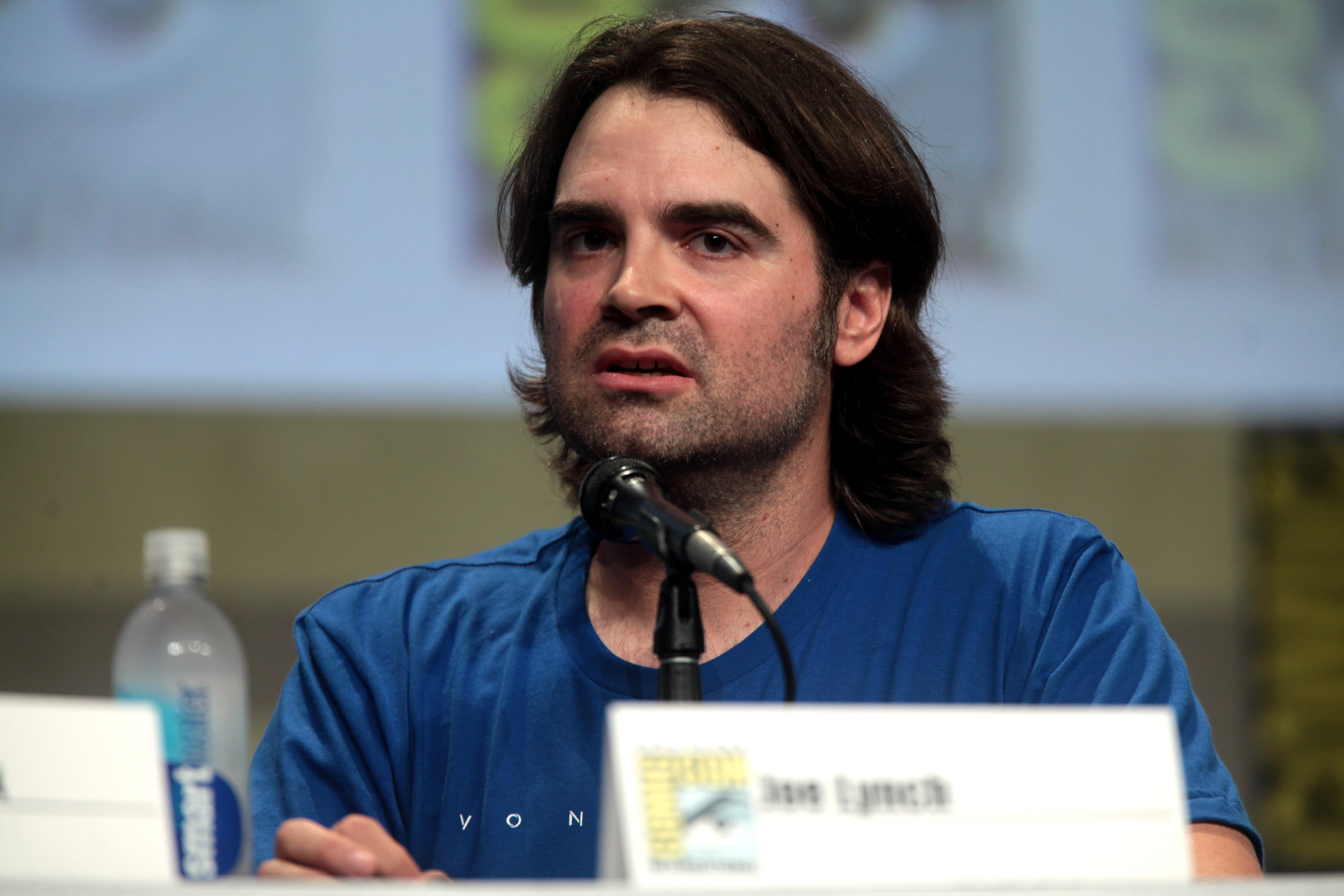 Joe Lynch speaking at the 2014 San Diego Comic Con International, for "Everly", at the San Diego Convention Center in San Diego, California.